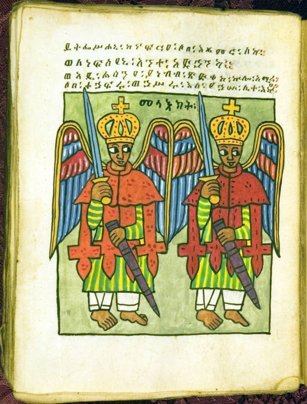 University of Oregon Museum of Natural and Cultural History, Shelf Mark 10-844 - Ethiopian biblical manuscript